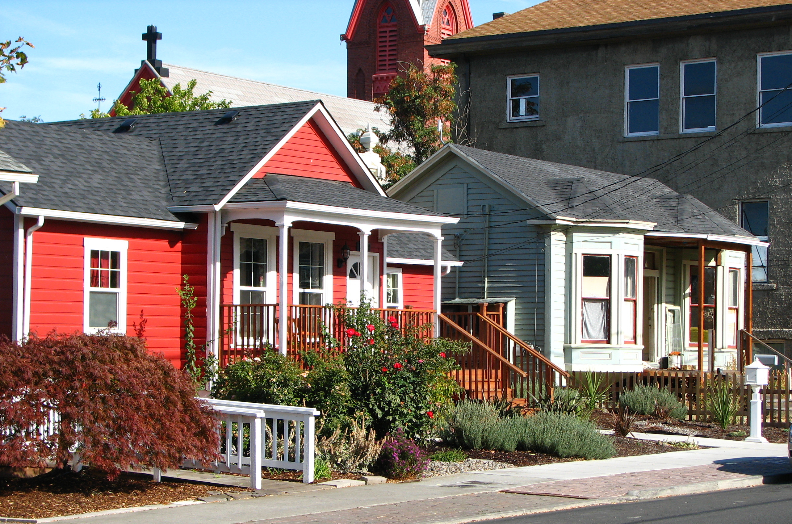 Two houses along West 4th Street in Trevitt's Addition Historic District, The Dalles, Oregon, United States. Left: The Carey House (built ca. 1880), 317 West 4th Street, is historic but does not contribute to the significance of the historic district due to extensive alterations. Right: The Wall House (built ca. 1864), 313 West 4th Street, is a primary contributing resource in the historic district. A significant and highly distinct addition from ca. 1890 is not visible in this photograph. Background: In the background are the old St. Peter's Catholic Church and Vogt Hall, both also contributing historic resources.